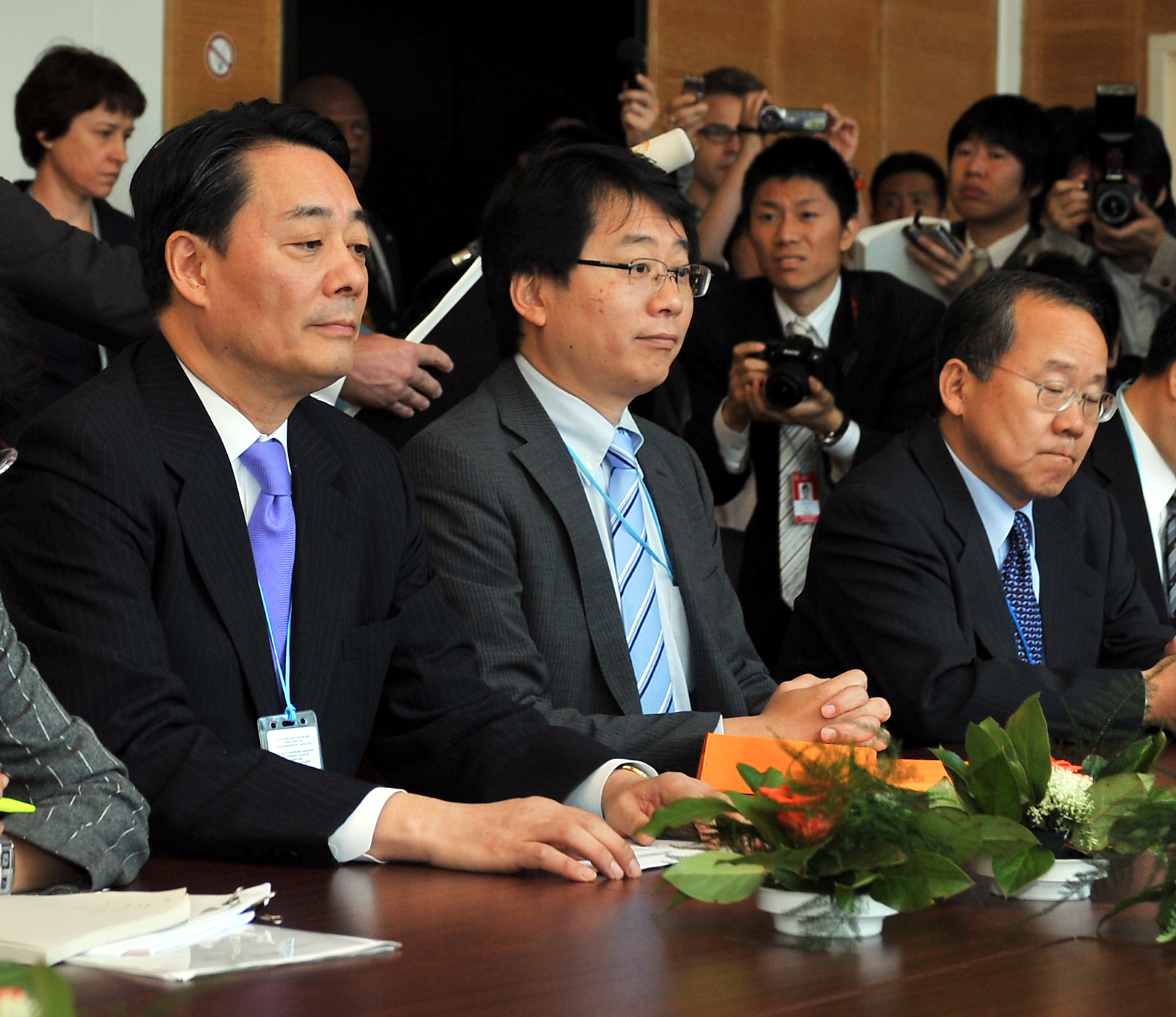 Banri Kaieda, Minister of Economy, Trade and Industry, Ikuo Yamahana, Parliamentary Secretary for Foreign Affairs, and Takeshi Nakane, Ambassador to the International Organizations in Vienna, talked with Yukiya Amano, Director General of the International Atomic Energy Agency, at the Ministerial Conference on Nuclear Safety in Vienna City, Vienna State on June 20, 2011.